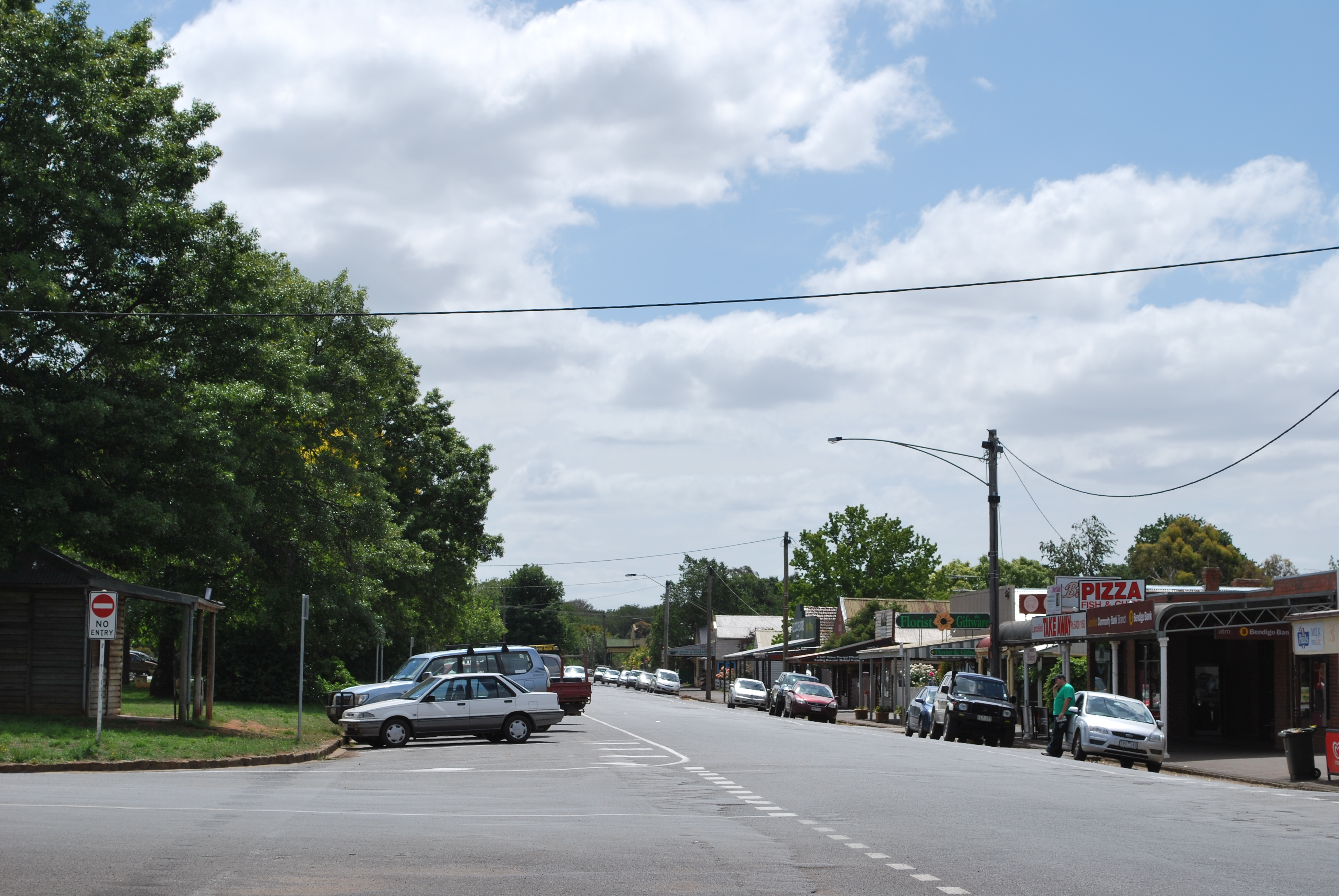 Streetscape of Lancefield, Victoria